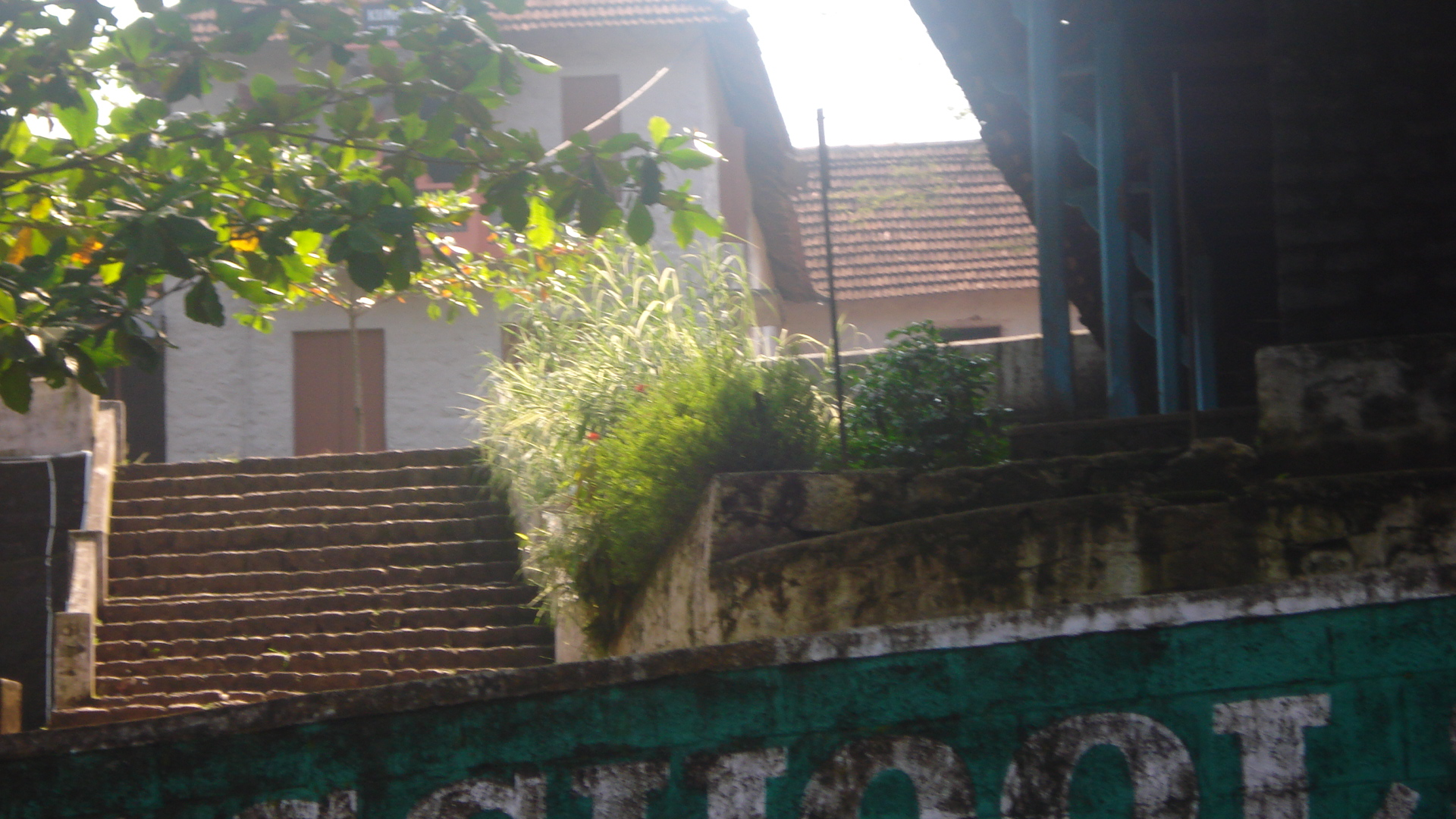 Kumplampoika CMSHS